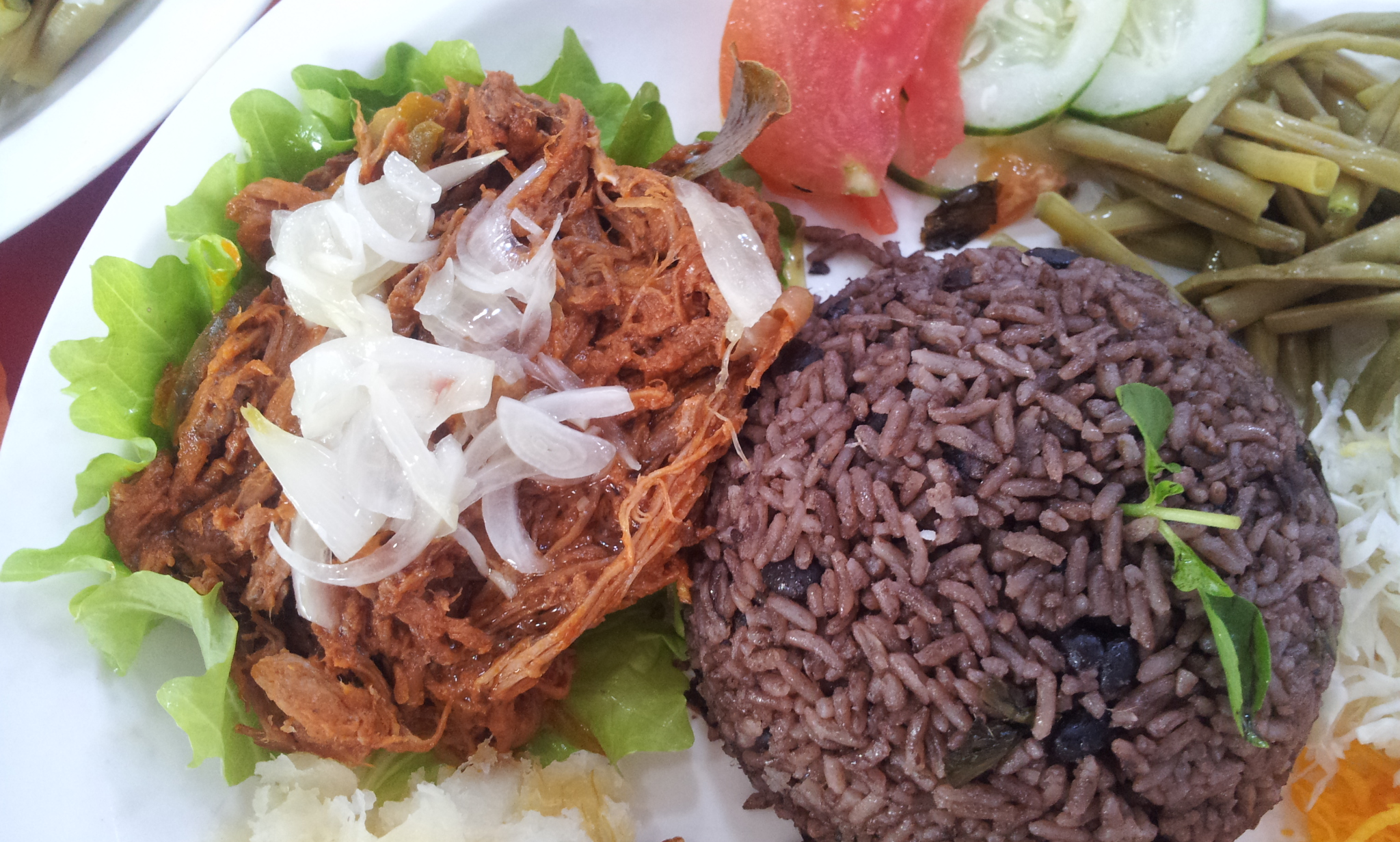 Typical Cuban dinner consisting of ropa vieja (shredded flank steak in a tomato sauce base), black beans, rice, fried bananas and different vegetables.